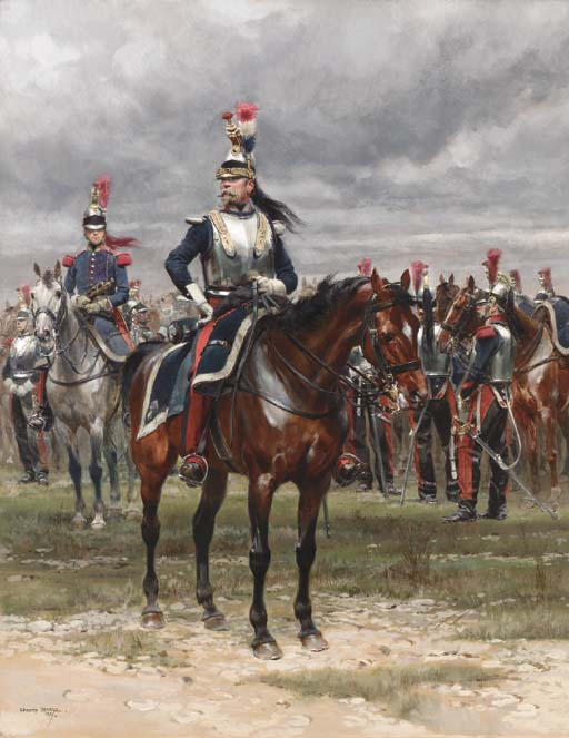 An Officer of the Cuirassiers (end of the XIX century)